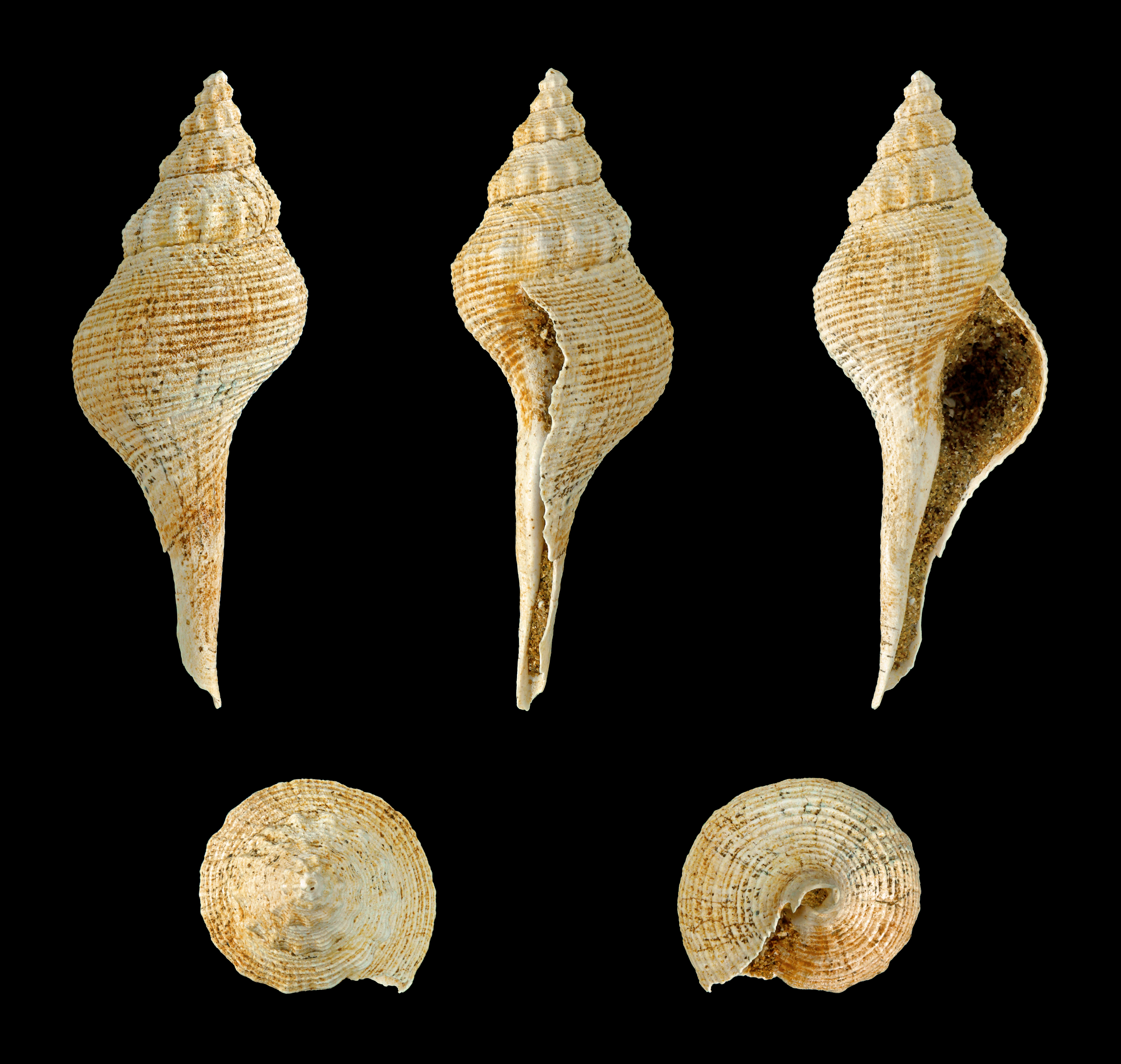 Length 3.2 cm; Miocene, Burdigalian; Léognan, France; Shell of own collection, therefore not geocoded. Dorsal, lateral (right side), ventral, back, and front view.